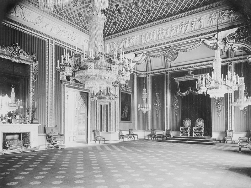 Throne Room.